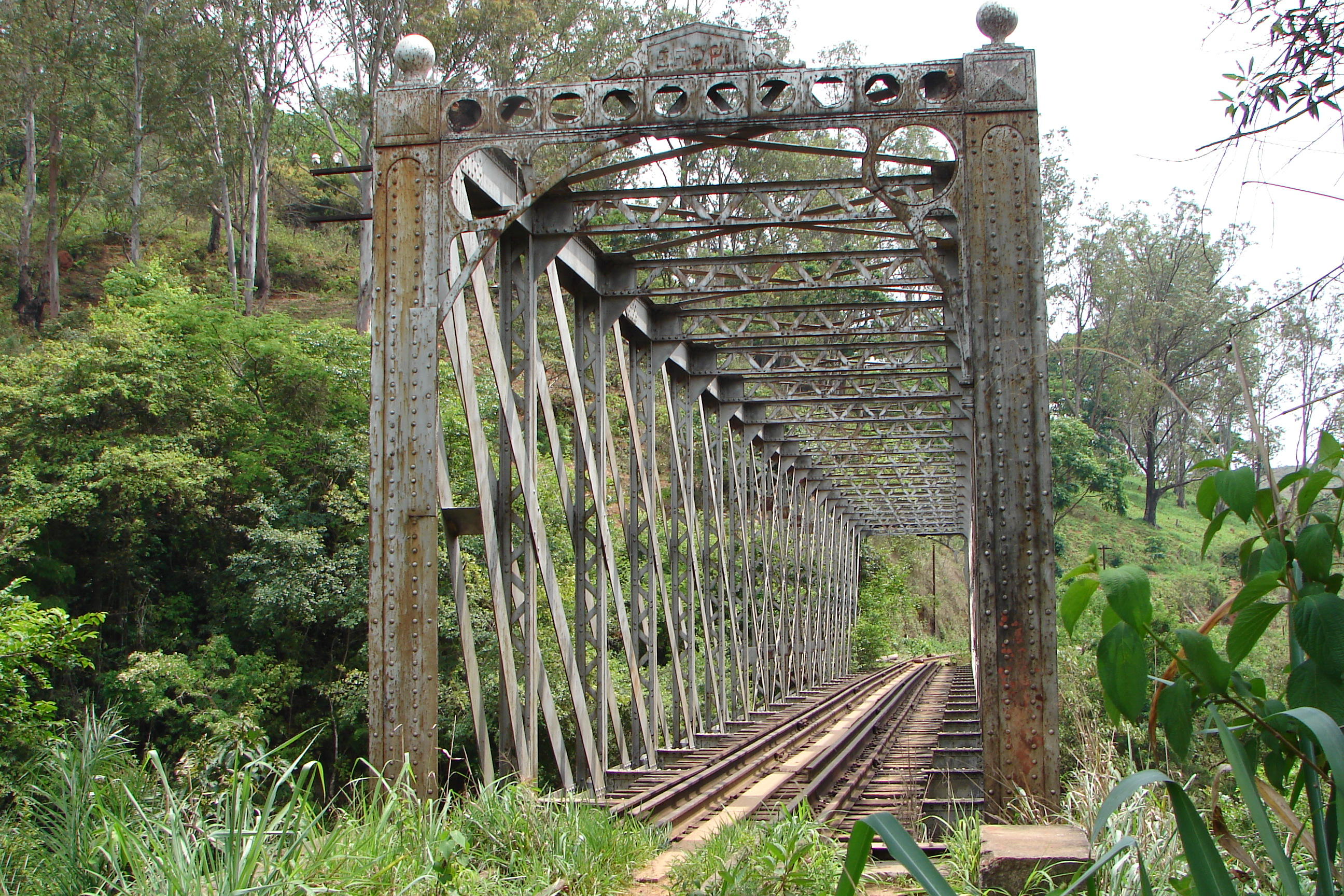 Ponte D. pedro Raposos